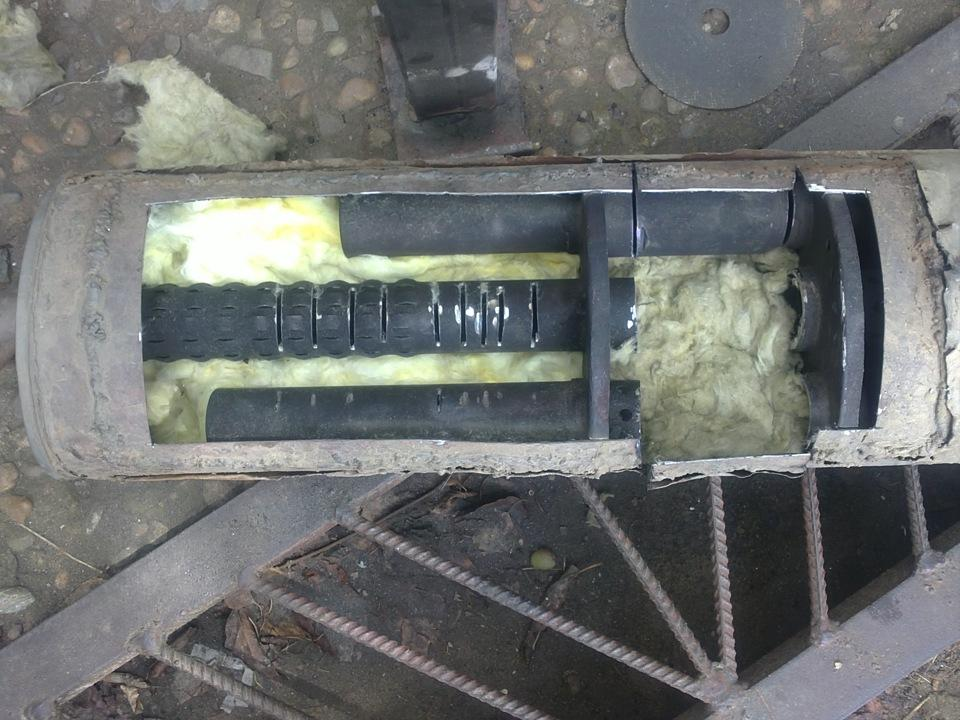 repair of an old ram muffler